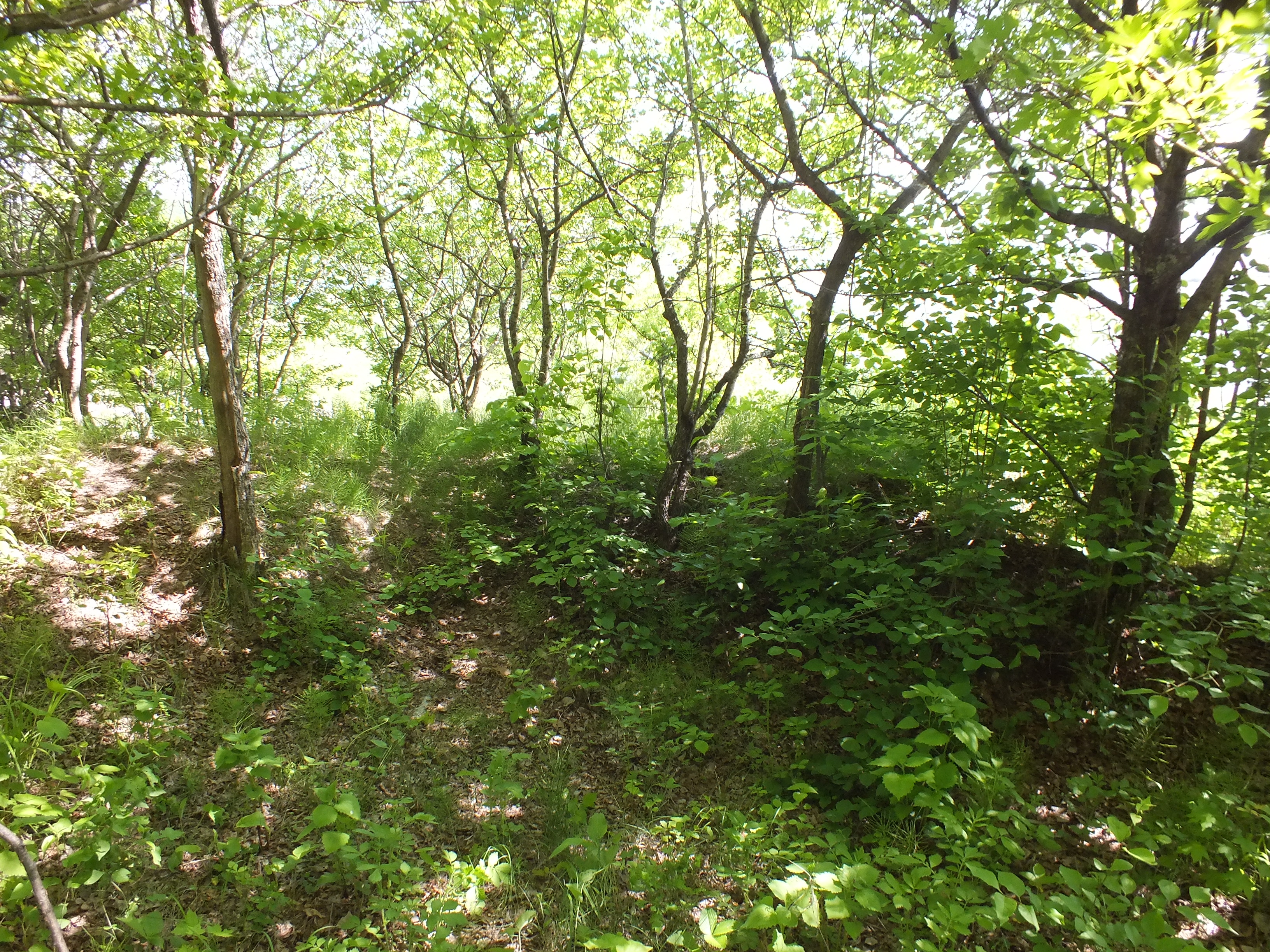 Malmyzh Nanayskiy rayon